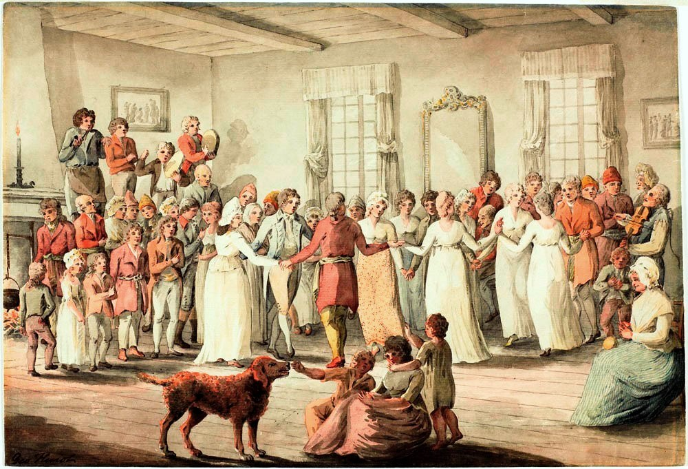 Dance in the Château St. Louis